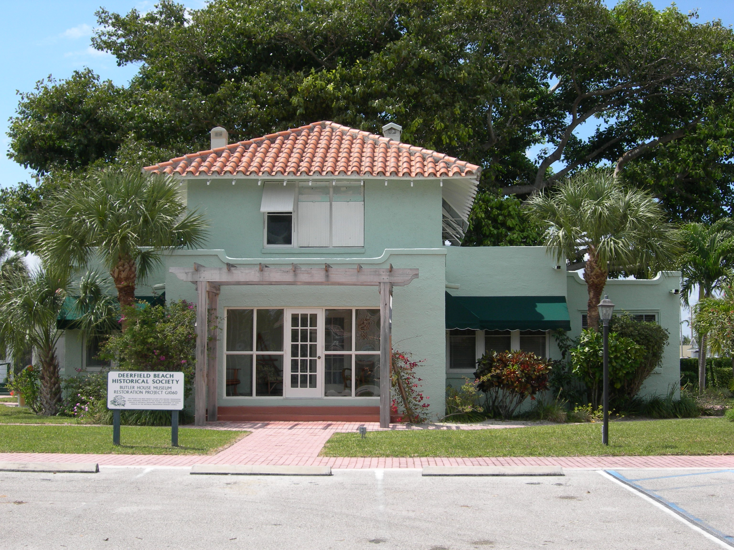 Butler house in Deerfield Beach, Florida, listed on the National Register of Historic Places.